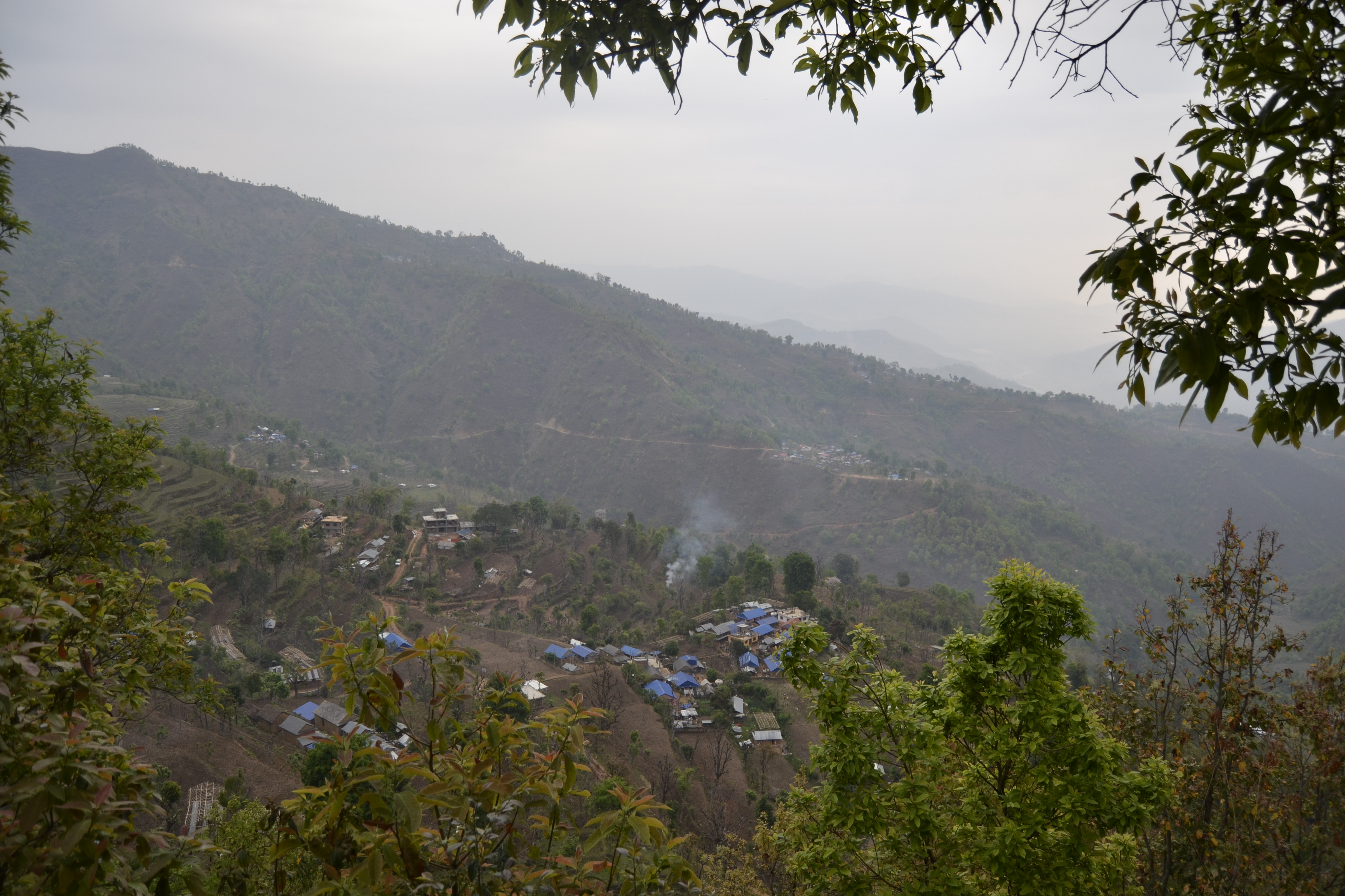 Ranishwara village is an indigenous group of Magar community.